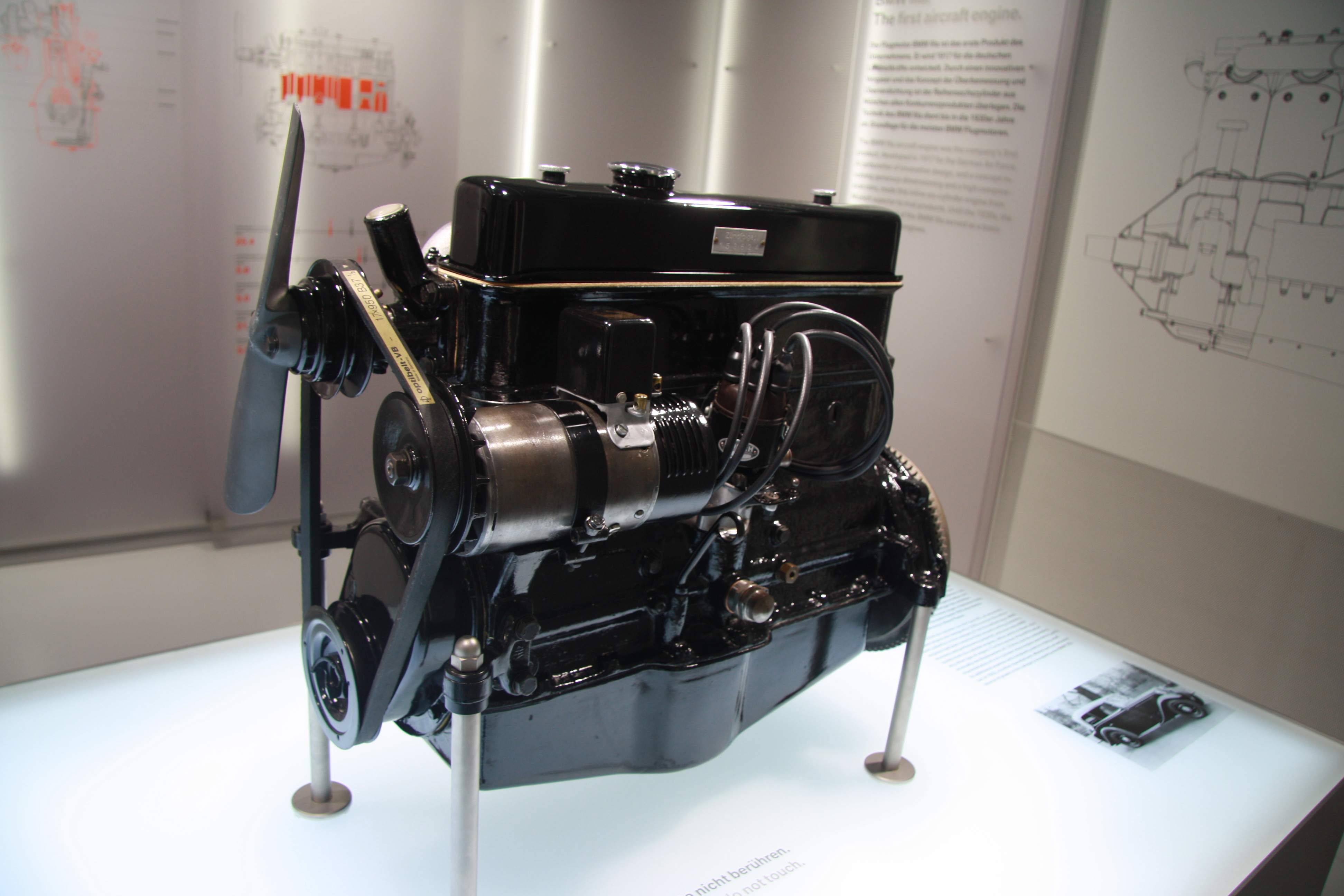 BMW M78 engine in BMW-Museum in Munich, Bayern.